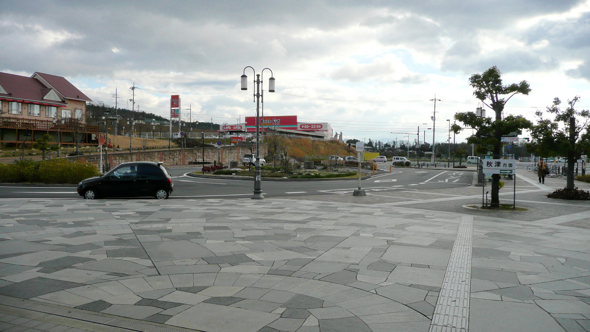 Kinki Nippon Railway,Ikoma Line,Higashiyama Station plaza.